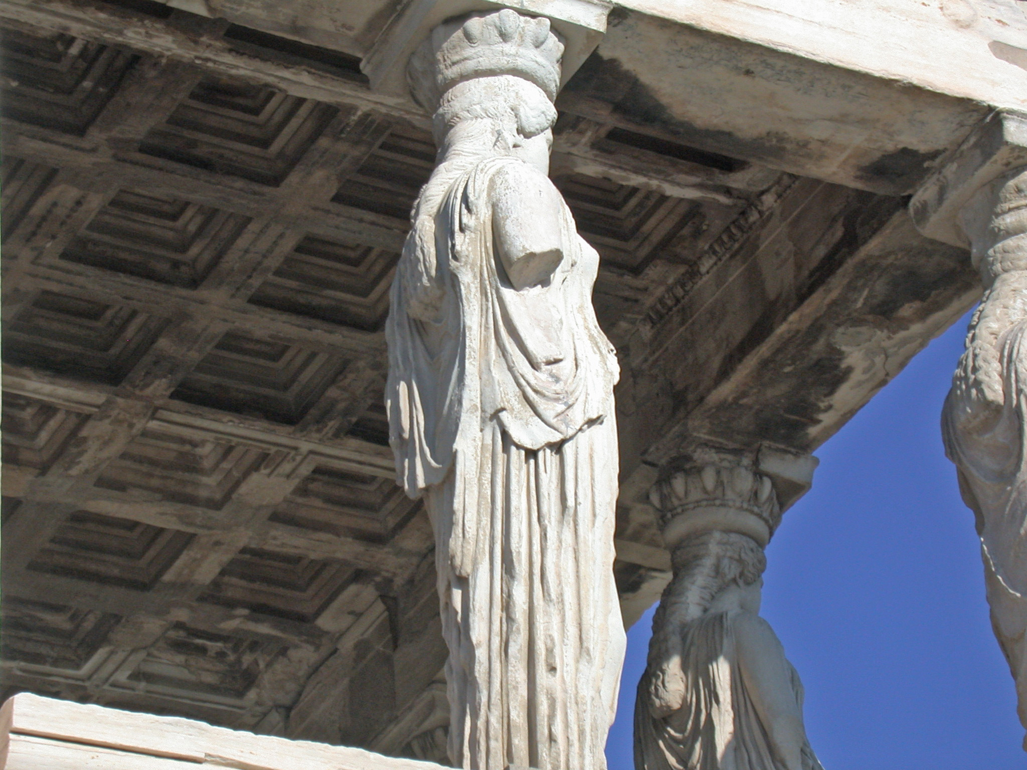 Roof of Porch of the Caryatids